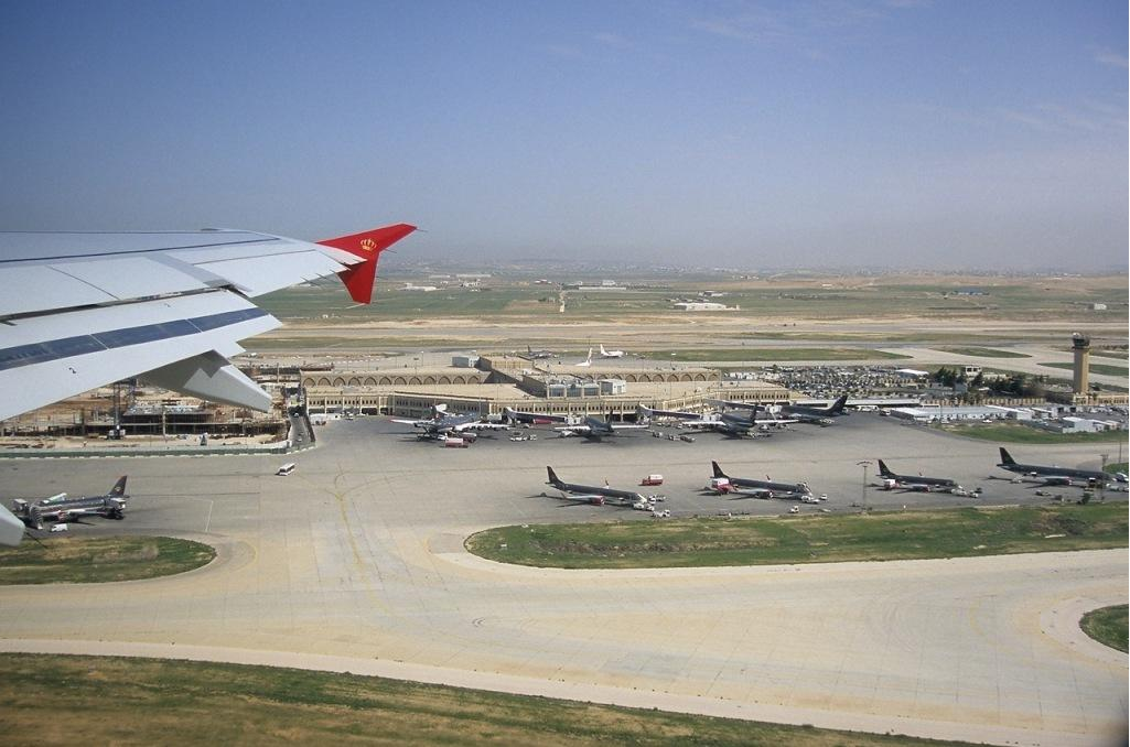 Queen Alia international airport from the air